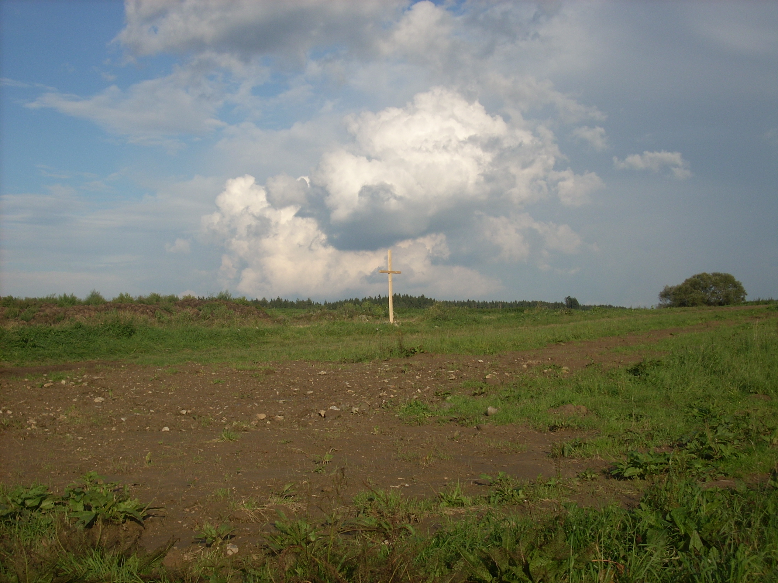 Meadow Budínka near by Dobronín (Jihlava District), panorama